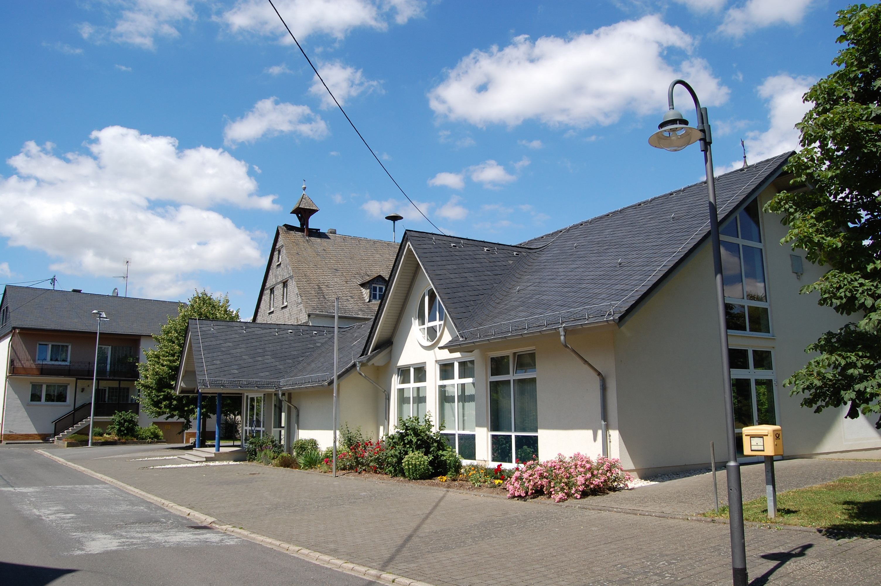 Village Niedersohren in the Hunsrück landscape, Germany